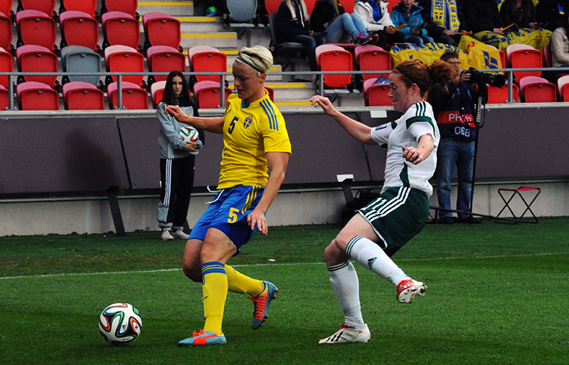 Nilla Fischer (Sweden) v Marissa Callaghan (Northern Ireland) in May 2014